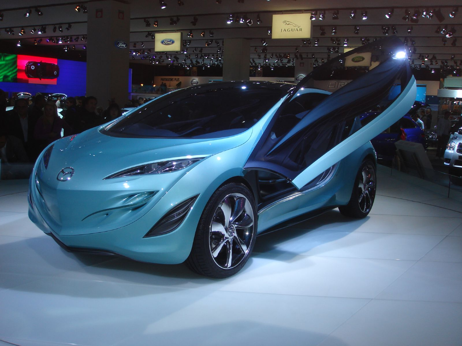 Mazda Kiyora at the Paris Auto Show in 2008.